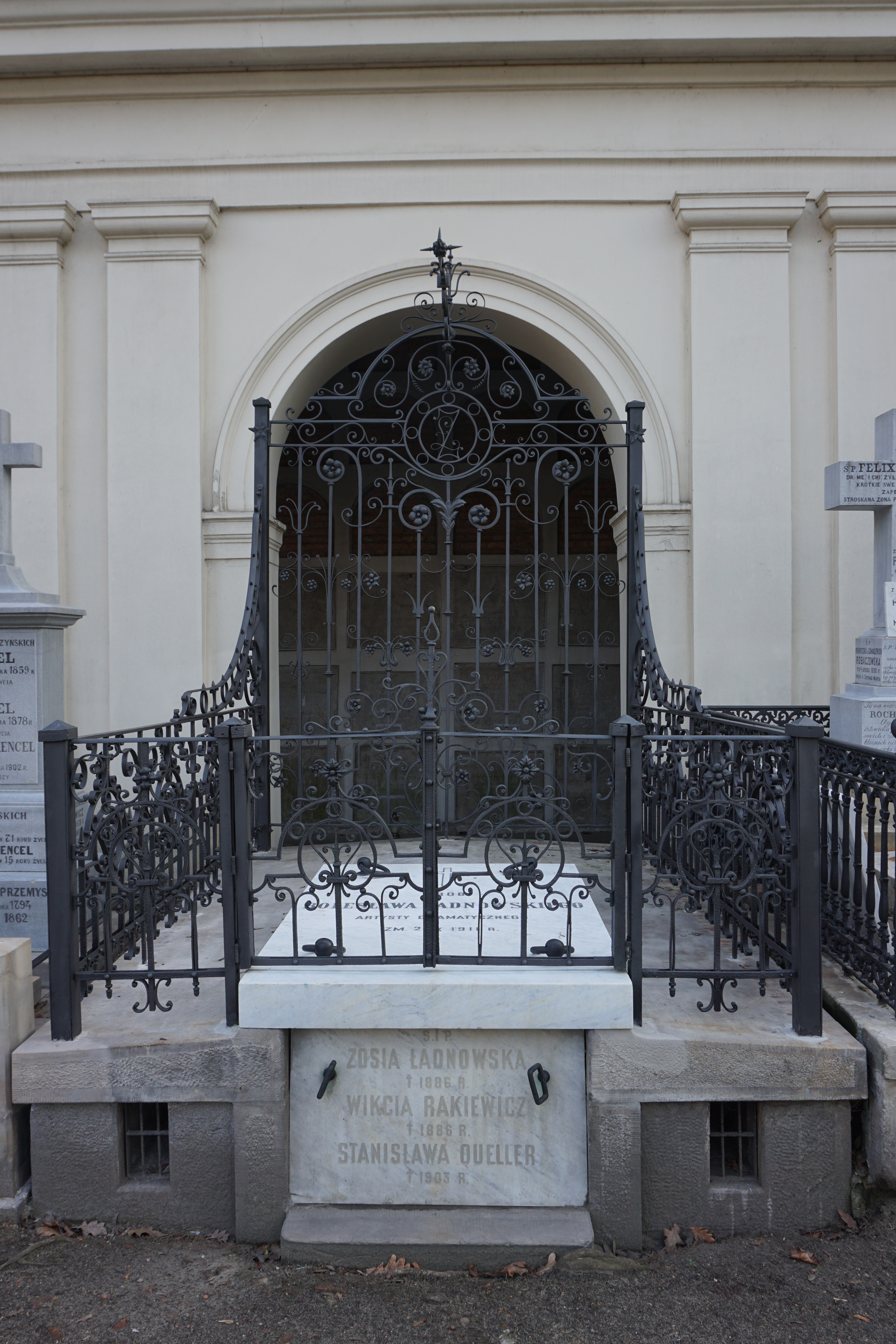 The grave of Bolesław Ładnowski at the Powązki Cemetery (section Under the catacombs, grave 67, 68)